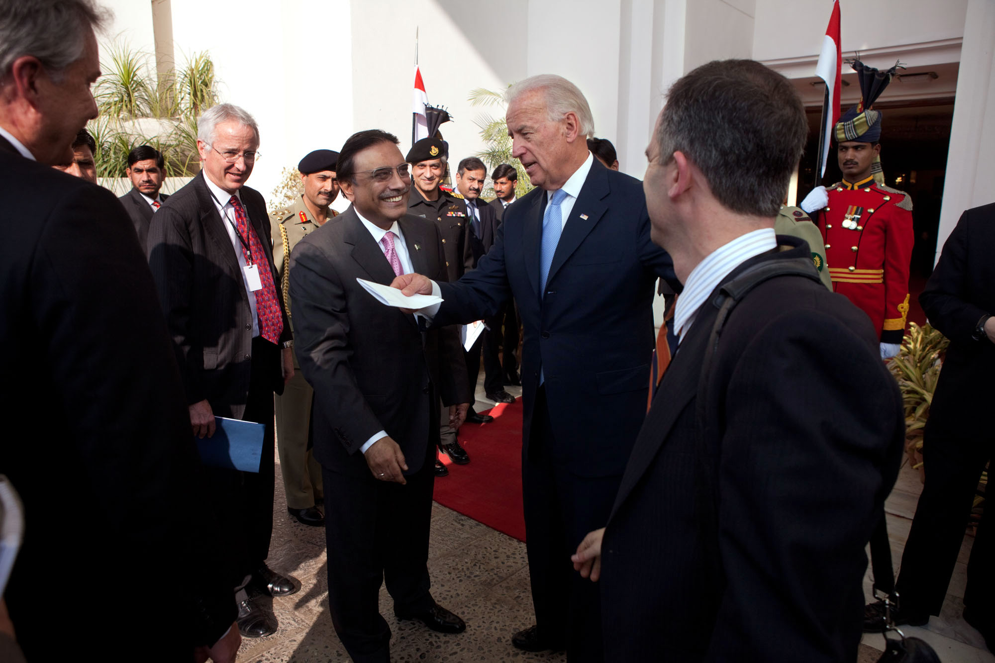 Vice President Joe Biden greets Pakistani President Asif Ali Zardari and introduces him to Acting Special Representative Frank Ruggiero, right, outside the Presidential Palace in Islamabad, Pakistan, Jan. 12, 2011.